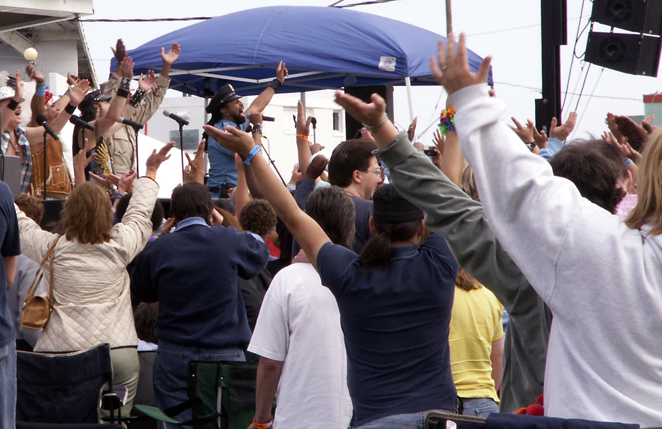 The Village People, YMCA at Asbury Park, New Jersey June 3, 2006